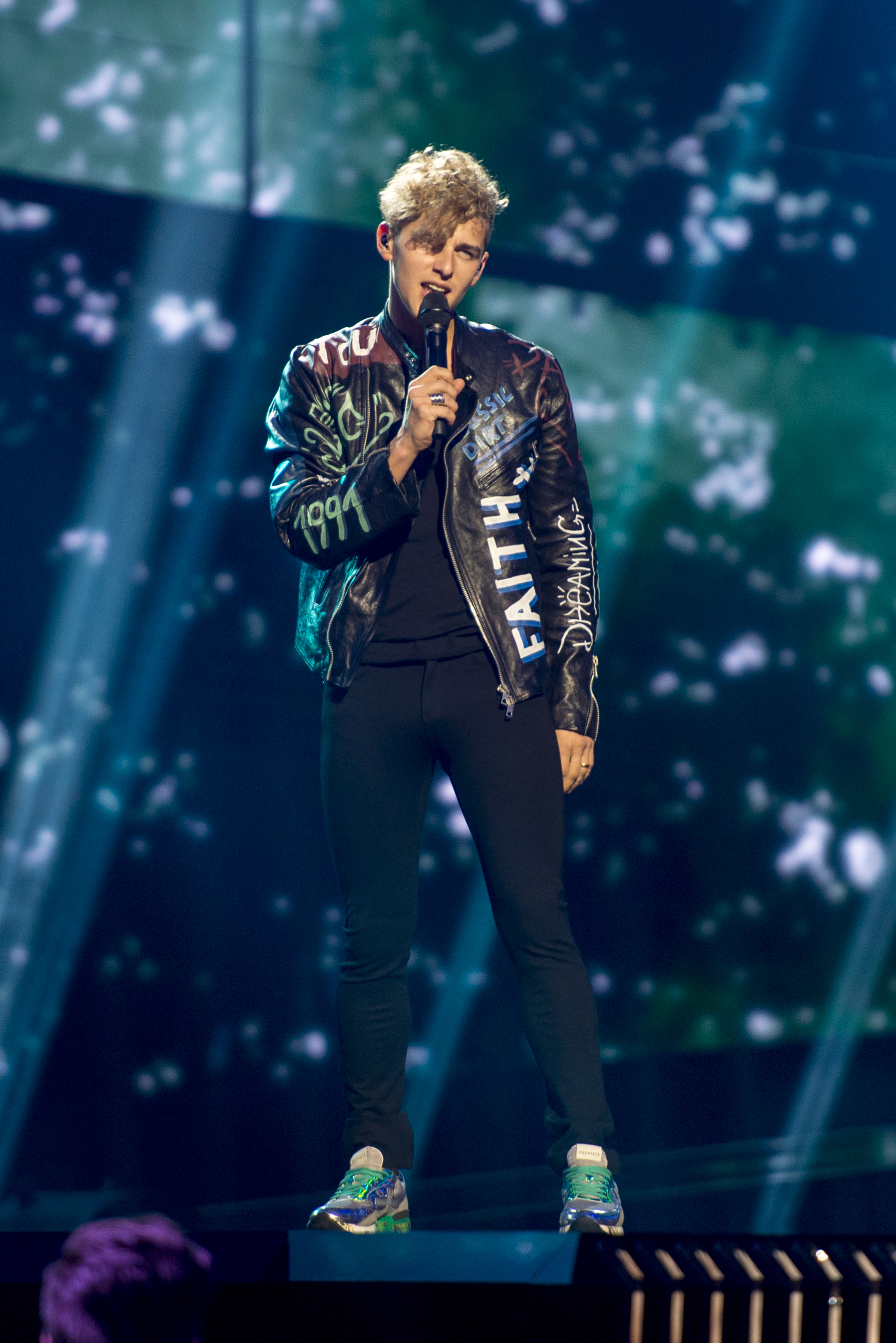 Donny Montell representing Lithuania with the song "I've Been Waiting for This Night" during a rehearsal before the second semi final of the Eurovision Song Contest 2016 in Stockholm. (Help translate this text)